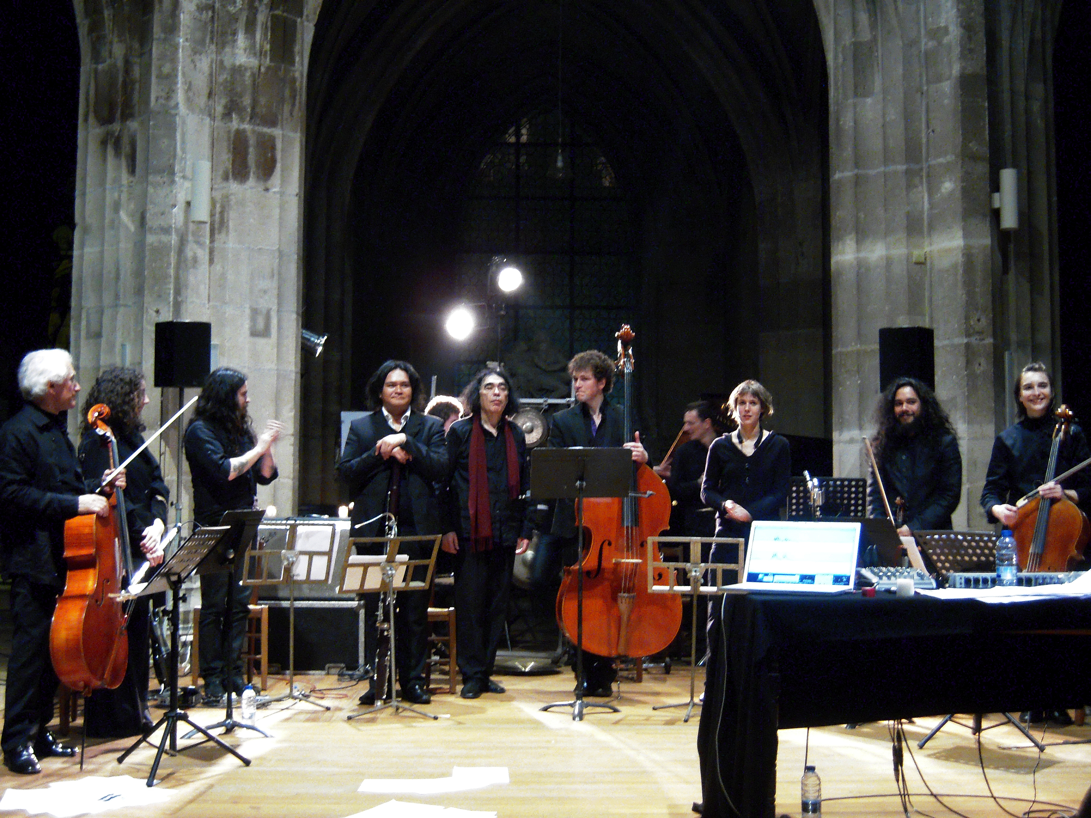 in Saint Merry church, "Les Rendez-Vous Contemporains de Saint Merry" concert serie.